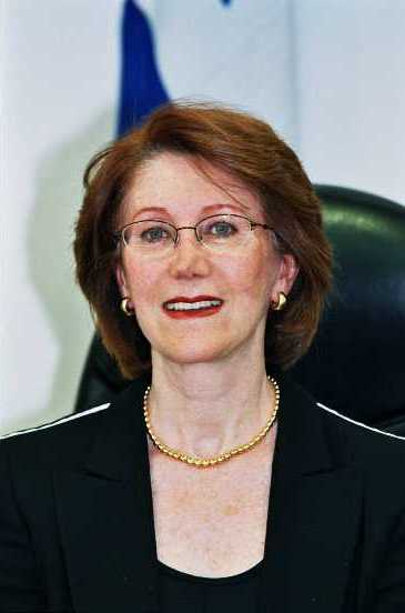 MOUSSIA ARAD